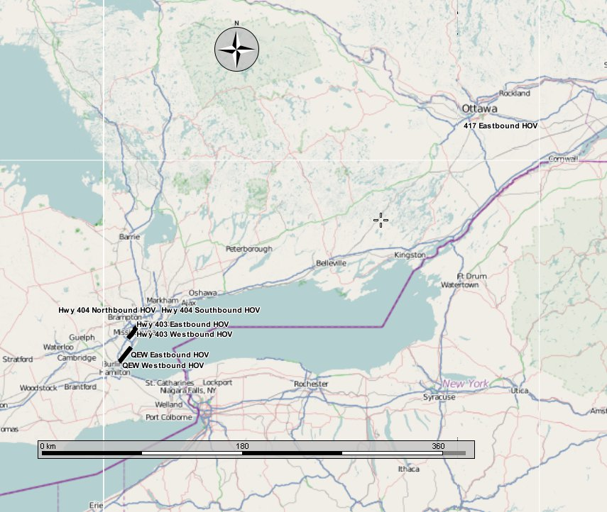 Mashup created using an Open Data KML set from the Province of Ontario, showing all HOV lanes in the province. Overlaid on an Open Street Map using Marble.